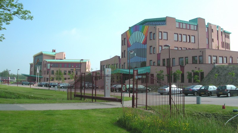 De ex-hoofdkantoren van DSB Bank/Groep, nu Gemeentehuis Medemblik en kantoren The ex-Headquarters of the DSB firm, now the town hall of Medemblik and other offices.